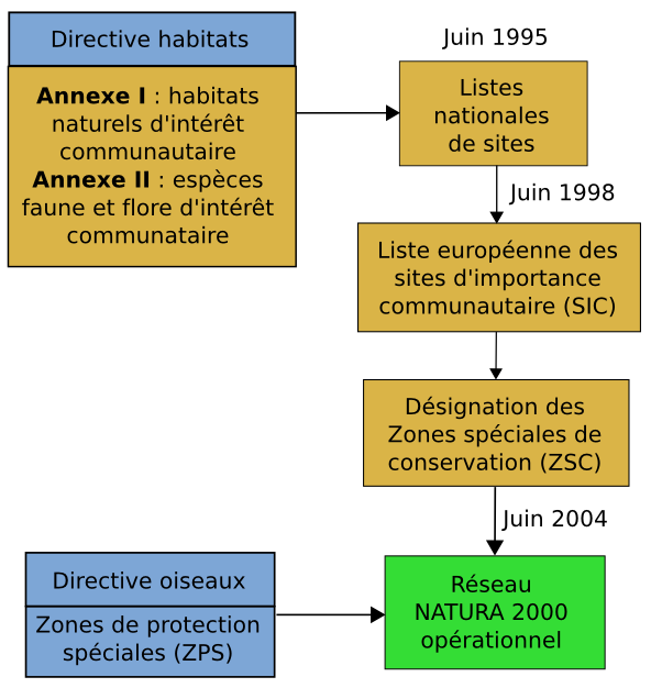 first estimated timeline for Natura 2000 Network